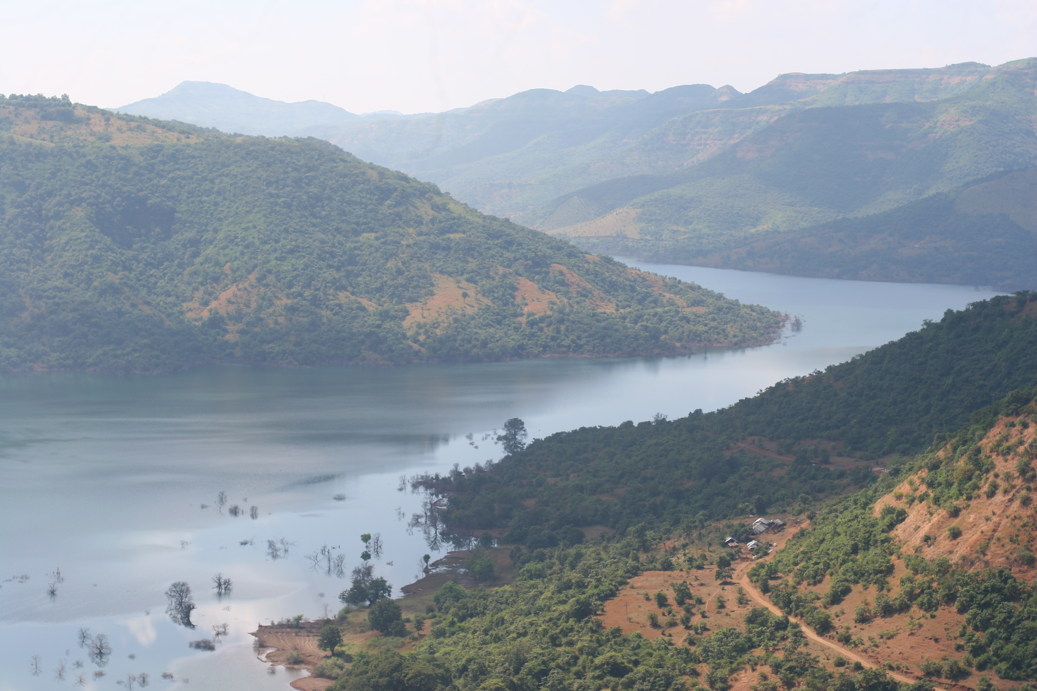 This is a view of the Temghar Reservoir from the hills to the North of the Dam. In the picture, Temghar Dam is a little beyond the lower left corner.